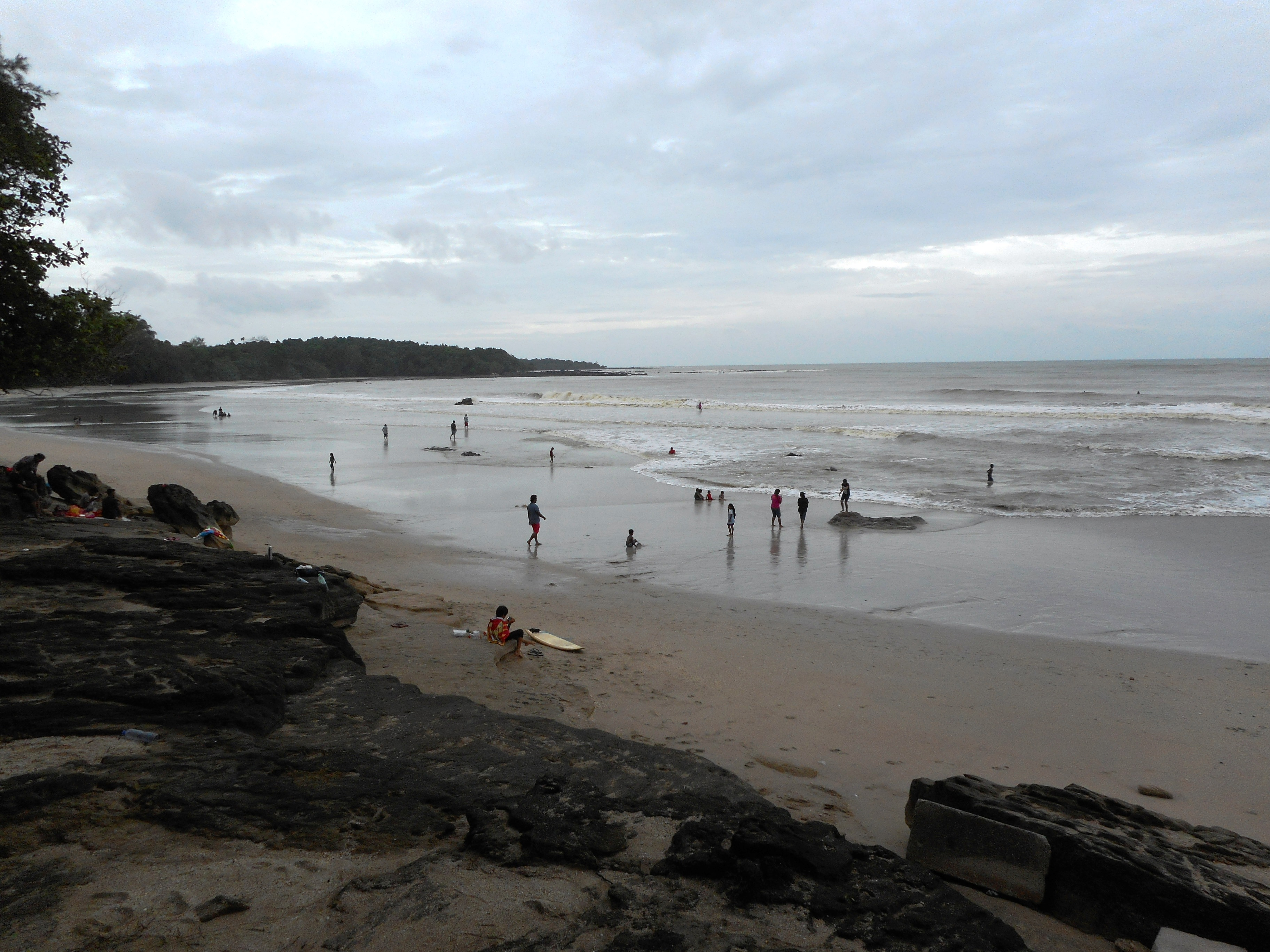 Sedili Kechil Beach, Sedili Kechil, Kota Tinggi, Johor, Malaysia